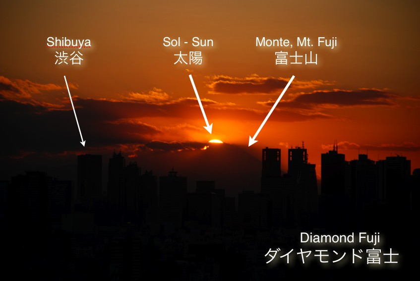 Diamond Fuji behind Shibuya in Tokyo, Japan